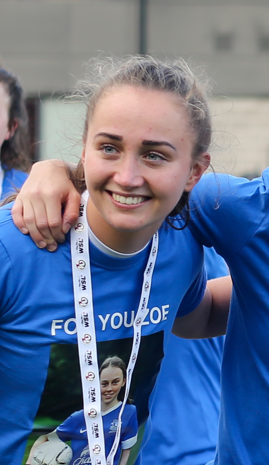 London Bees v Everton LFC, 20 May 2017